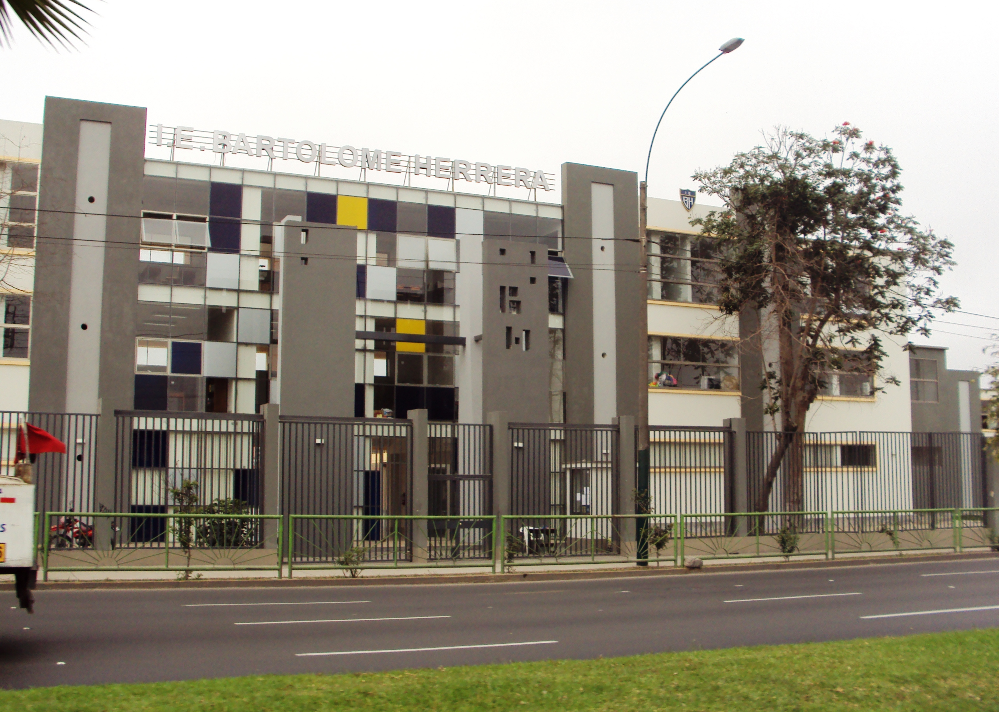 Bartolome Herrera School in San Miguel District (Lima-Peru)